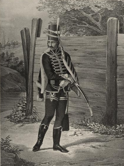 A "Wachtmeister" of a Hungarian hussar regiment, from 1776 to 1783.